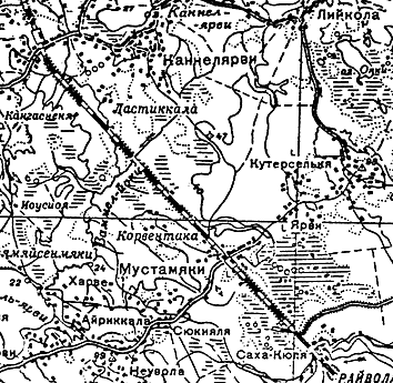 1942 map of Mustamaki country, Finland